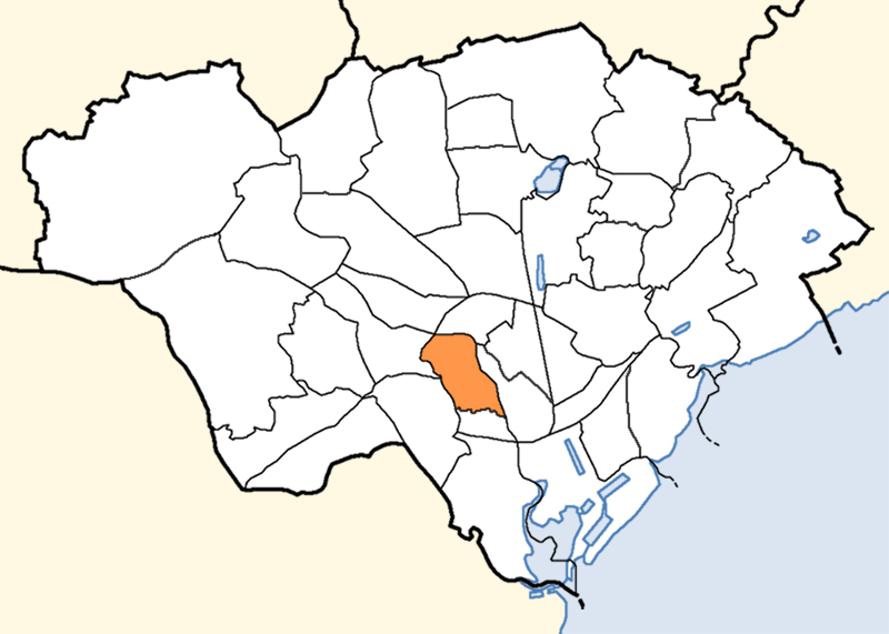 Location map of the community of Pontcanna (post-2016) in Cardiff, Wales. The Riverside community was split in 2016 to create a new community identity for Pontcanna from the northern 70% of the district.